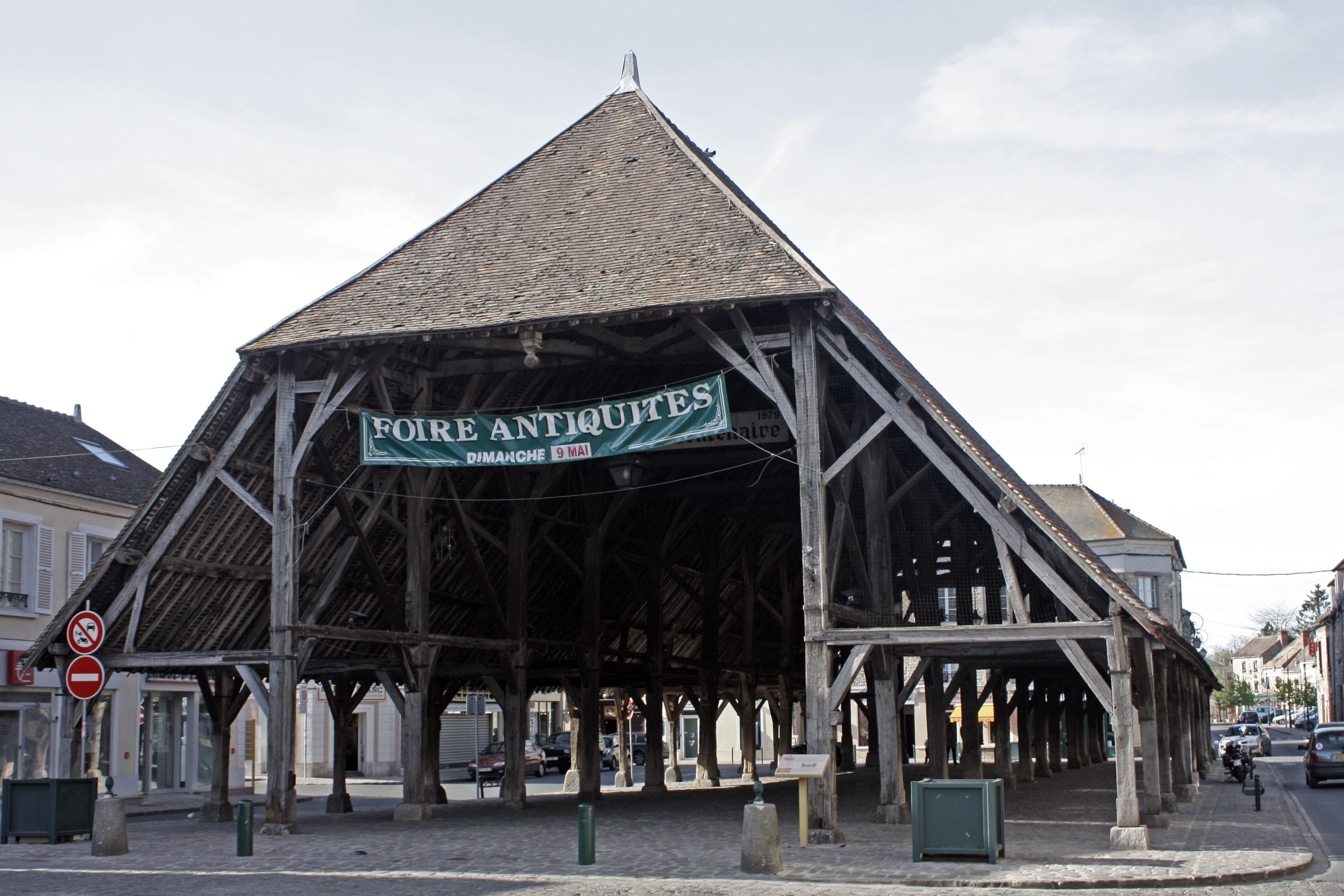 Builded by the Grand Admiral of France, Mallet Graville, in 1479.